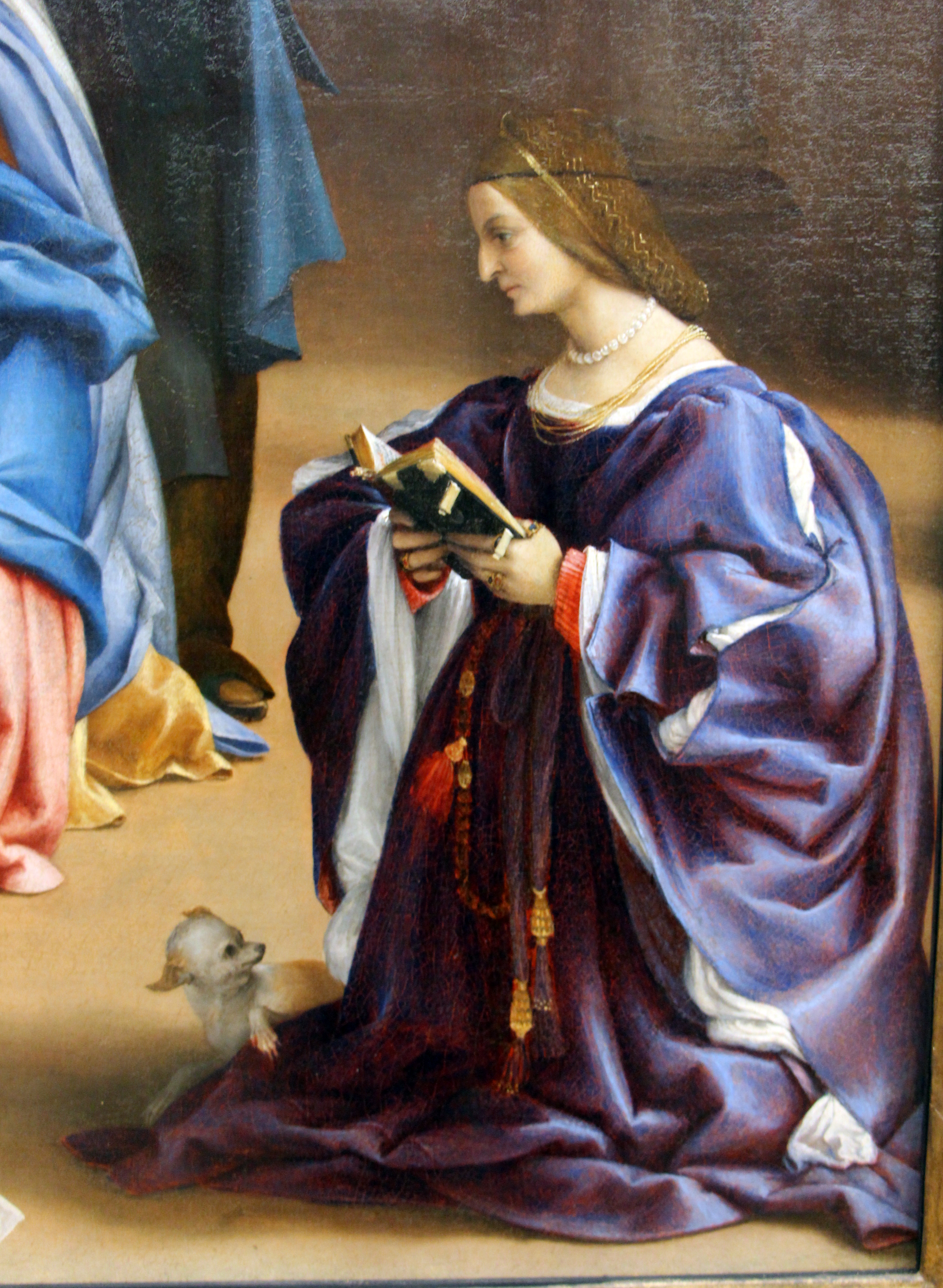 Paintings by Lorenzo Lotto in the Gemäldegalerie, Berlin